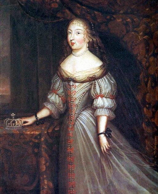 Marie Jeanne of Savoy (1644-1724) some time after her marriage holding the Savoyard crown